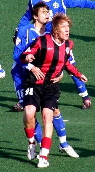 Dmitry Belorukov (21) in action for FC Amkar